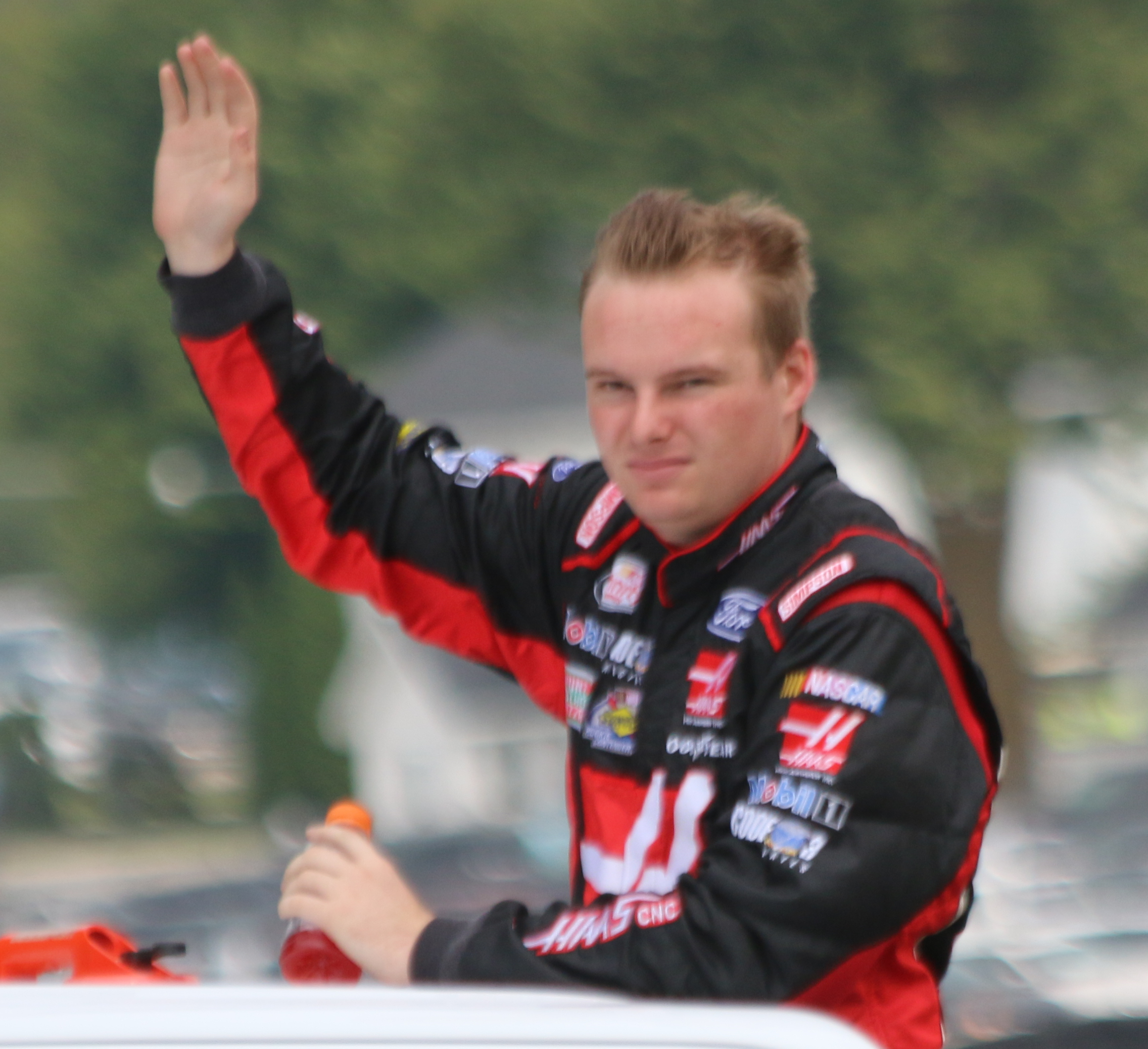 NASCAR driver Cole Custer during the driver's introductions lap at the 2017 Johnsonville 180 race in the Xfinity Series race at Road America.